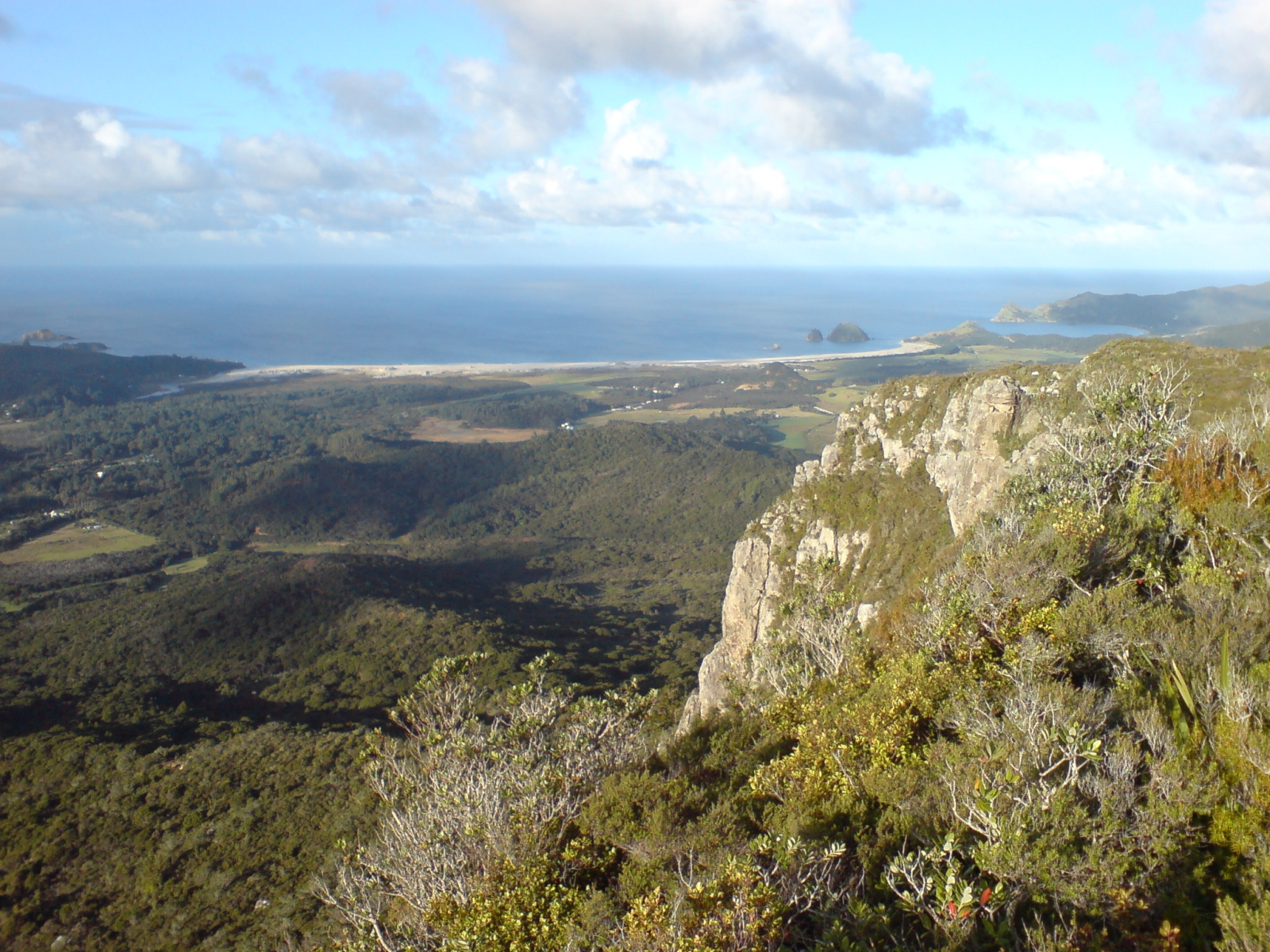 A view over the eastern coast (towards Medlands Beach) of Great Barrier Island, New Zealand, from a ridgeline in the centre of the island.